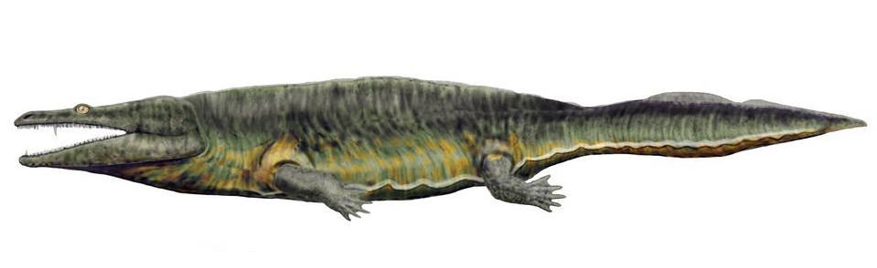 Restoration of Metoposaurus krasiejowensis by Szymon Górnicki